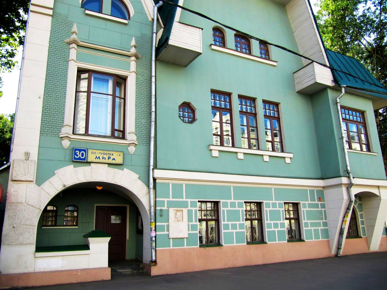 The famous Russian poet Valery Yakovlevich Bryusov lived in this house (Moscow, Prospekt Mira, 30) in 1910 - 1924. Now there is a literary museum.